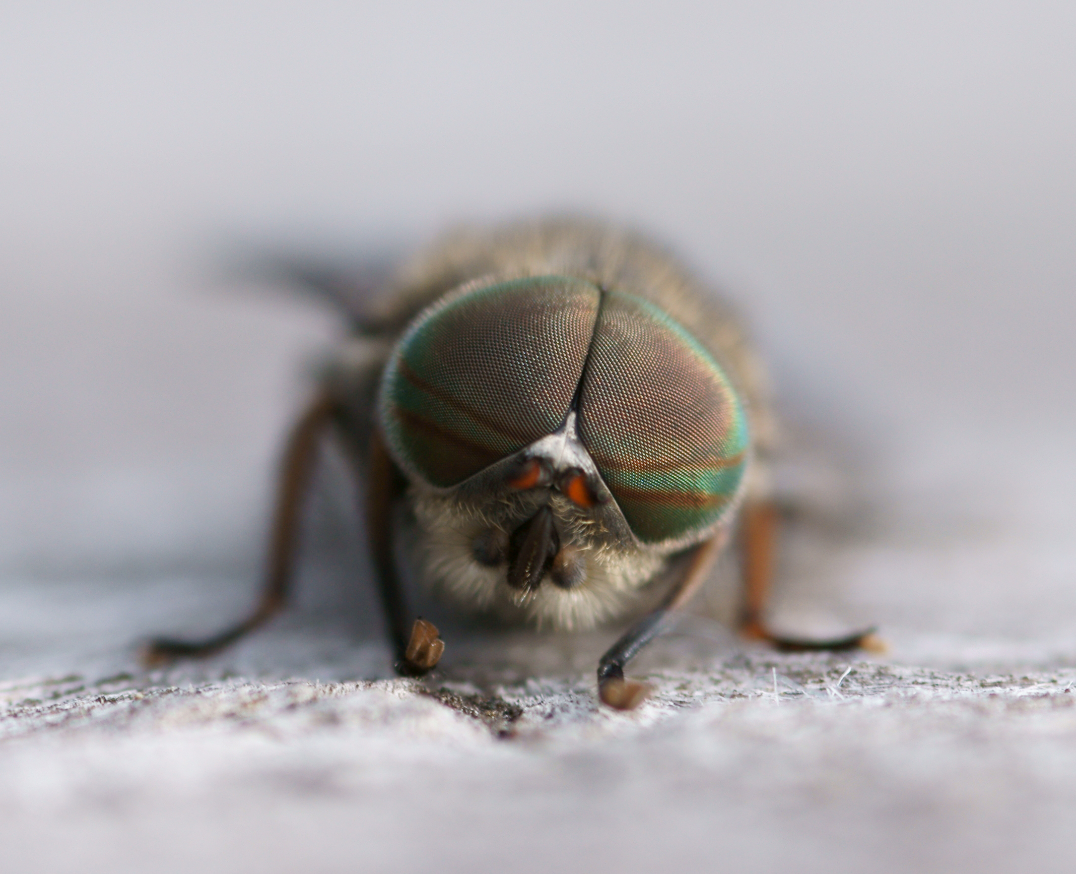 Eyes of unidentified Hybomitra (male).